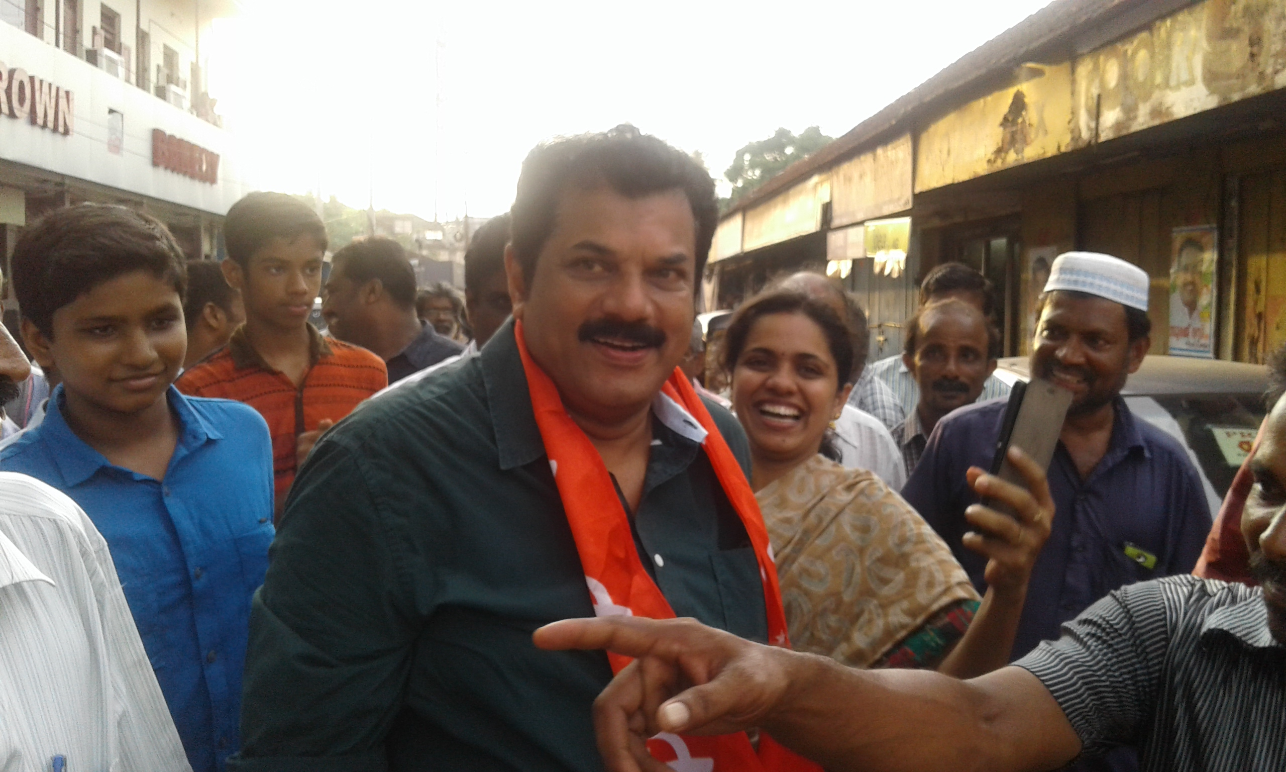 Malayalam cine Actor Mukesh during election campaign 2016 at Kollam